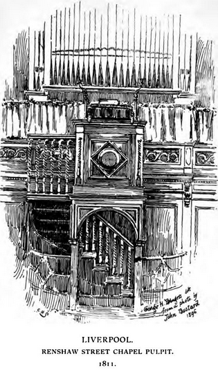 Drawing of the pulpit installed at Renshaw Street Unitarian Chapel, Liverpool, England, in 1811. From a photograph taken in 1896.